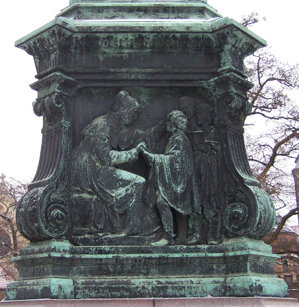 A detail at the west front of the Luther monument in Eisenach.